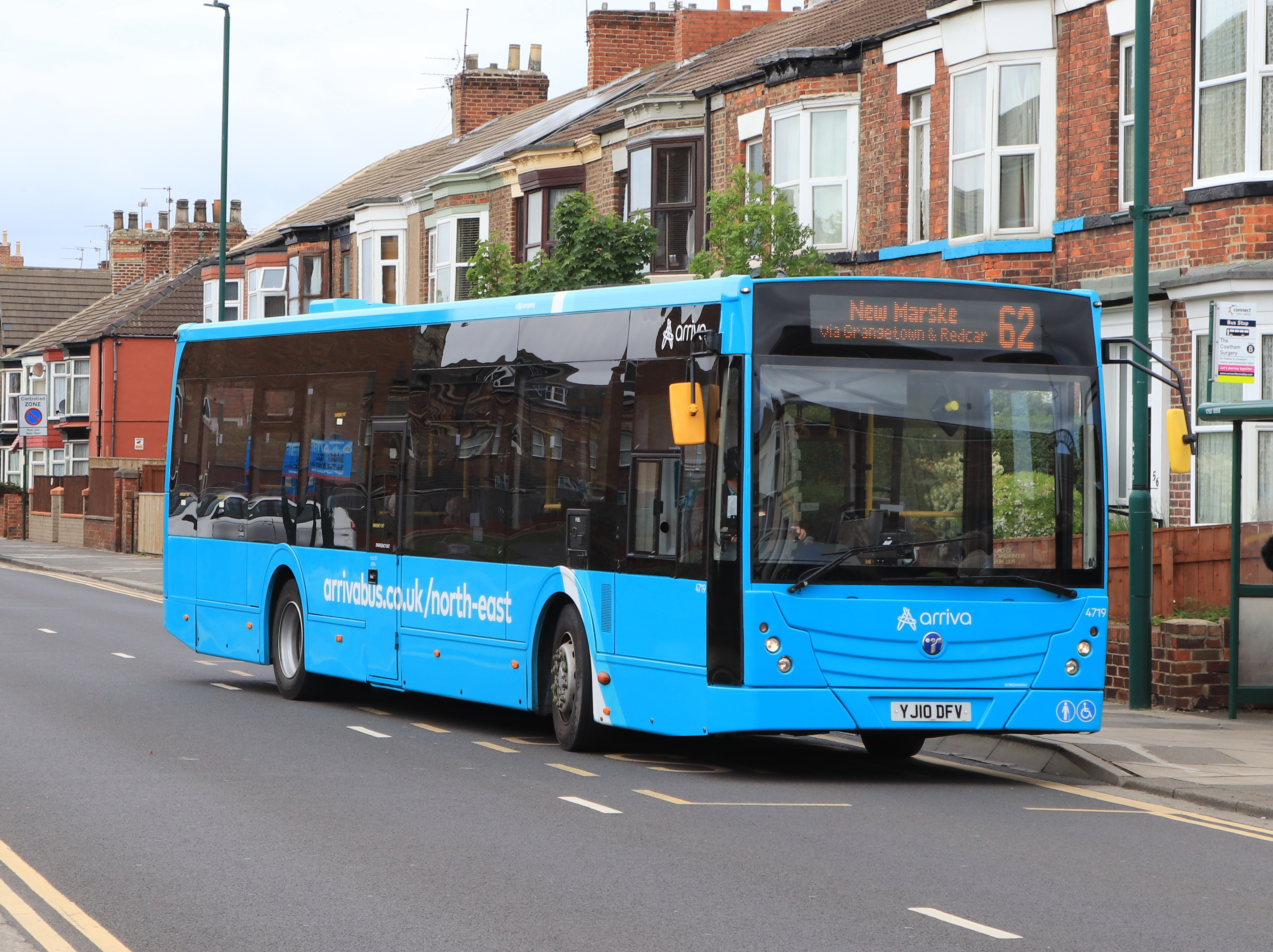 A Temsa Avenue of Arriva North East